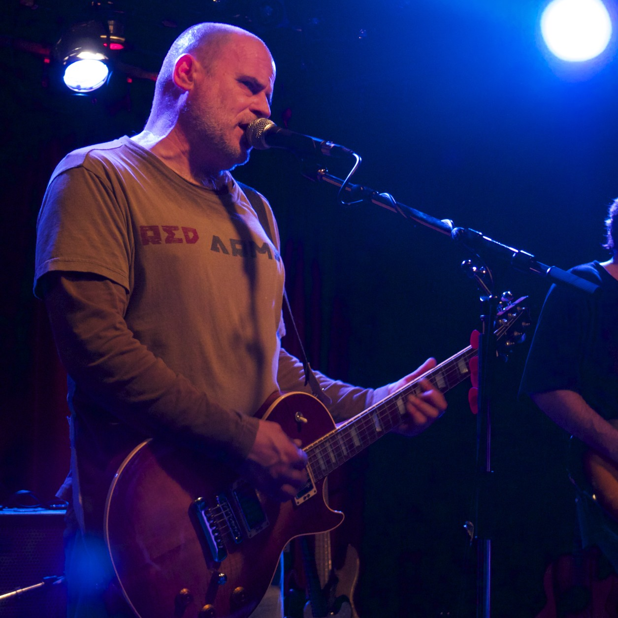 Rudy Caya at Petit Campus on January 29th 2011